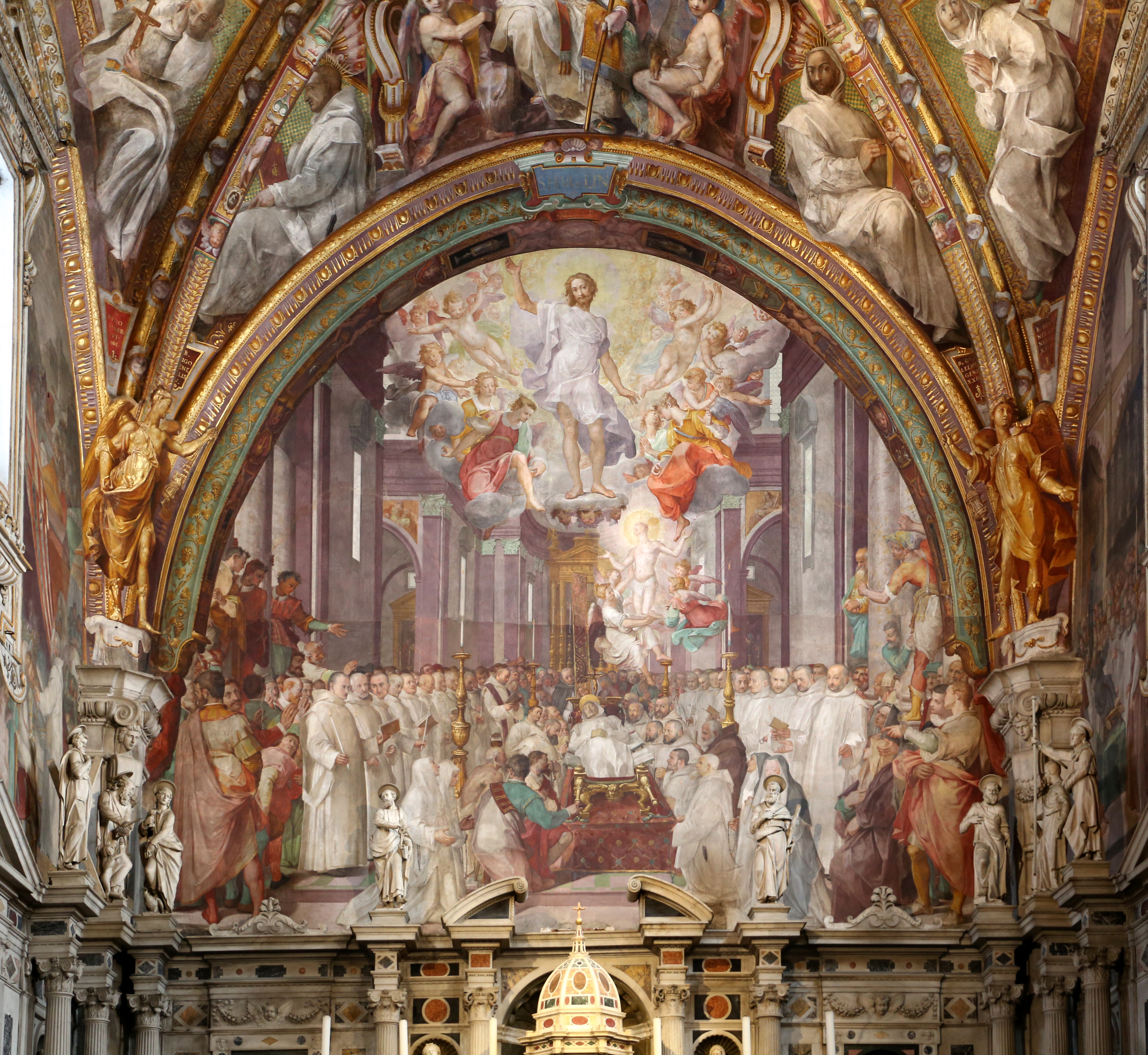 Certosa (Florence) - San Lorenzo (Monks church) - Frescos by Bernardino Poccetti